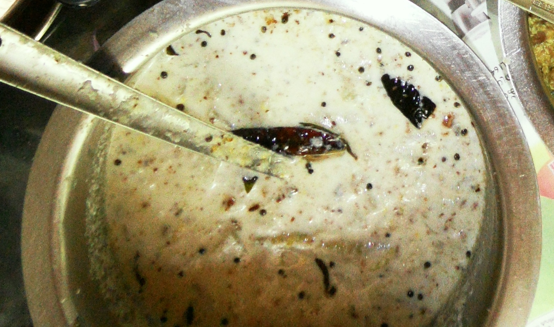 pachadi